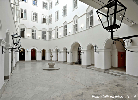 Inner Courtyard of Palais Wenkheim